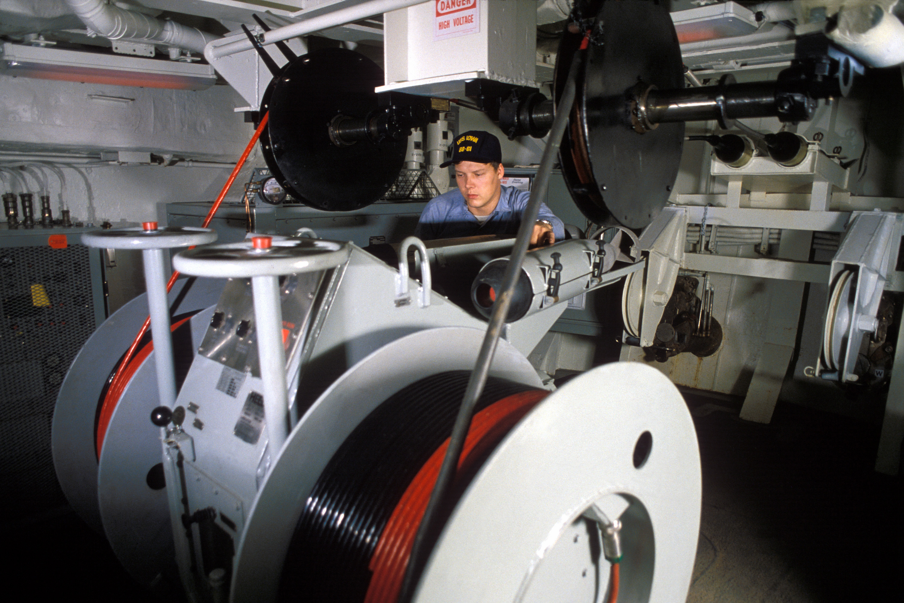 An electronic warfare technician (EN) examines the SLQ-25 (NIXIE) torpedo countermeasures equipment installed aboard the battleship USS IOWA (BB 61).